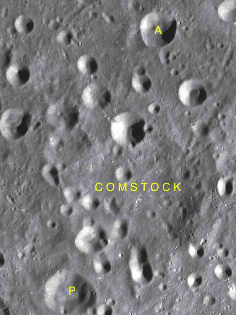 Part of the chart LAC-53 used for the presentation